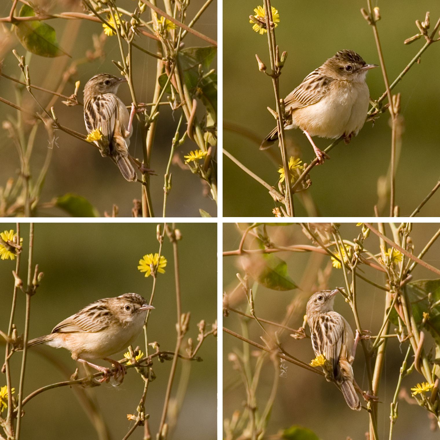 A montage of four photos of Zitting Cisticola or Streaked Fantail Warbler (Cisticola juncidis).